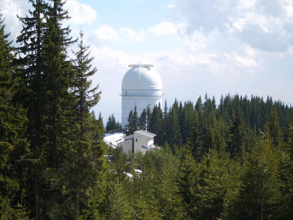 Rozhen observatory 2m telescope dome